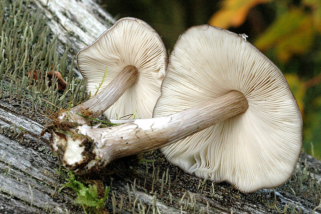 Pluteus cervinus from Commanster, Belgium. The determination of the species shown in this picture has been verified.